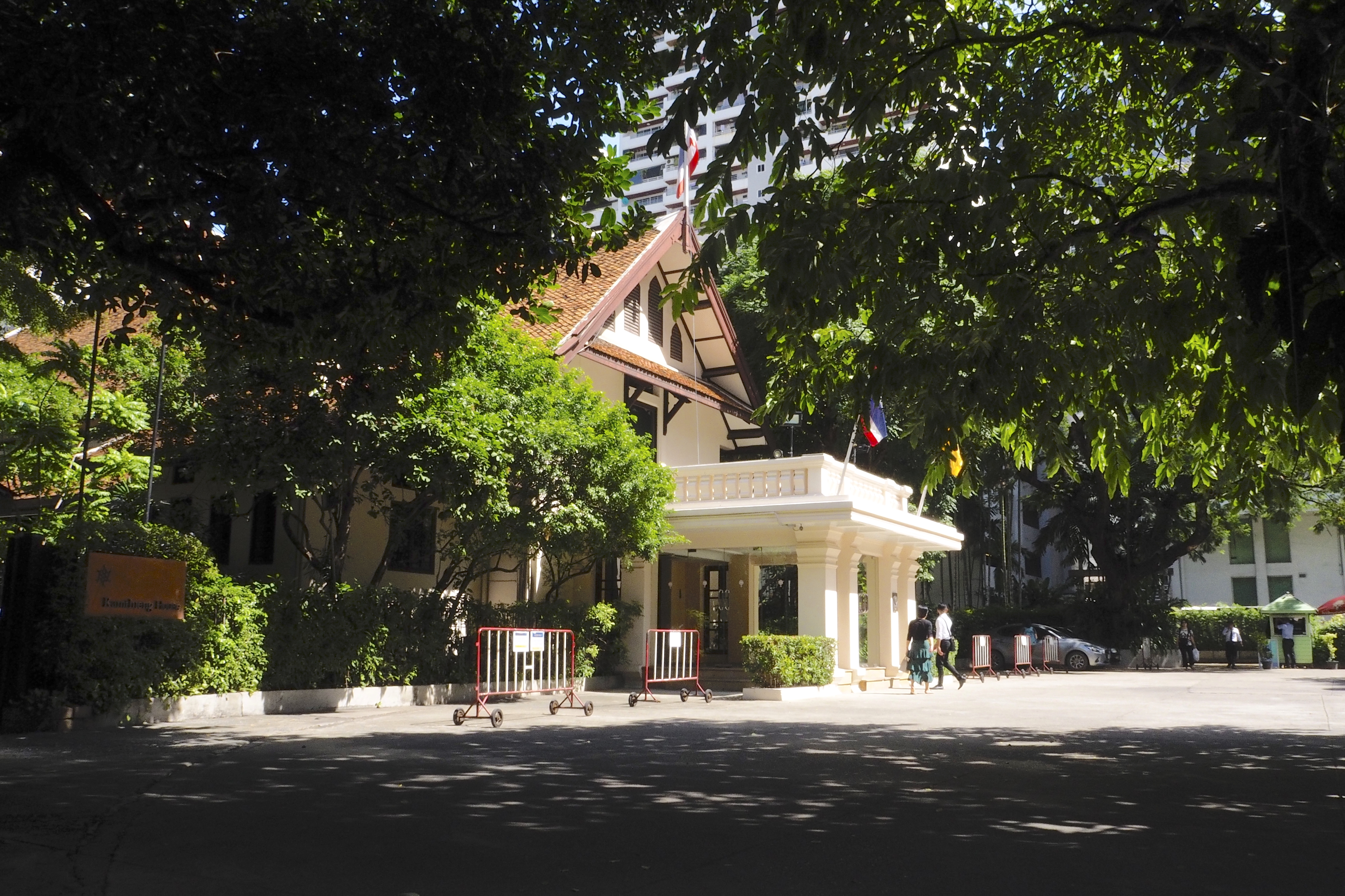 Auditorium of the Siam Society photographed in 2019